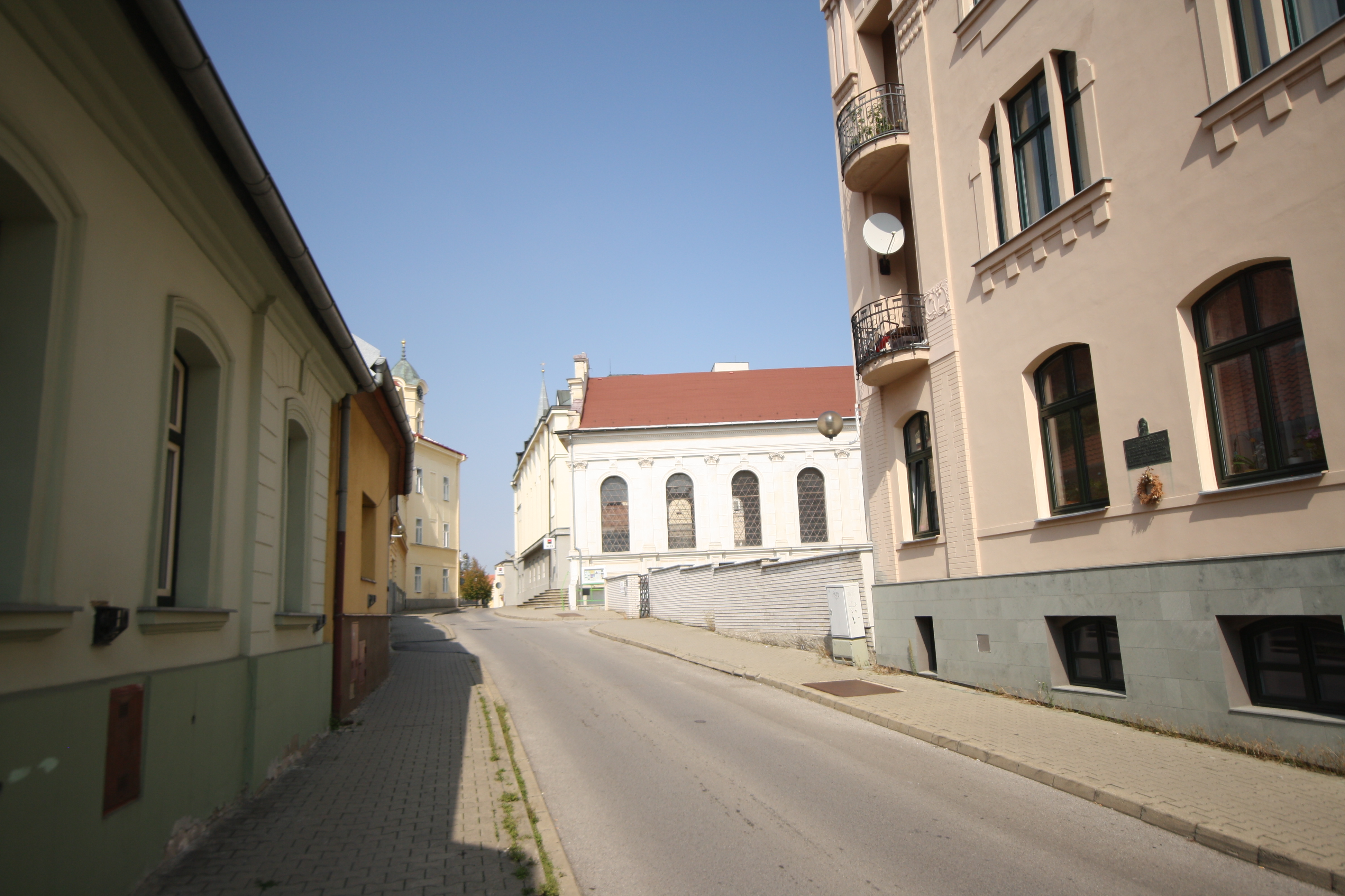 North view of Plk. Stříbrného street in Kladno, Kladno District.